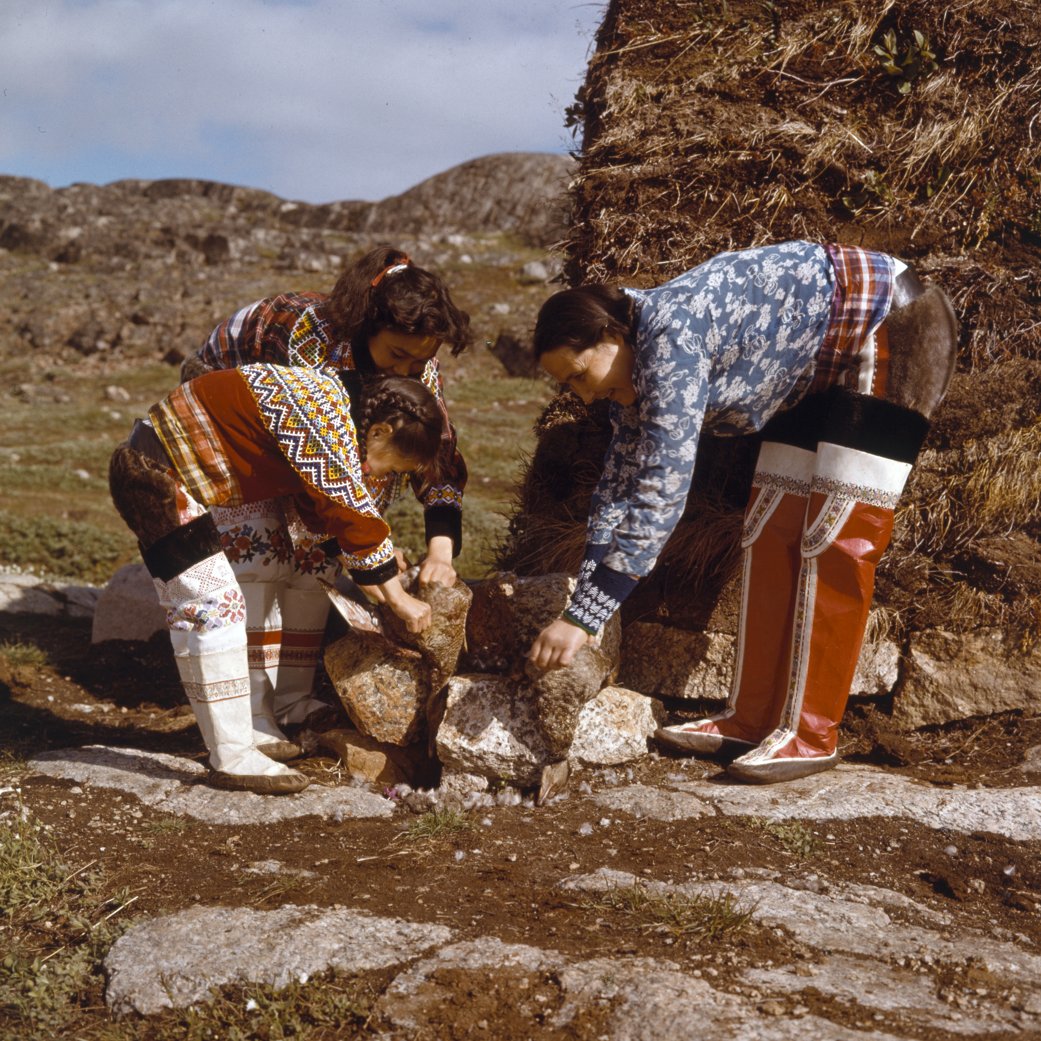 Greenlanders plucking a sea fowl.